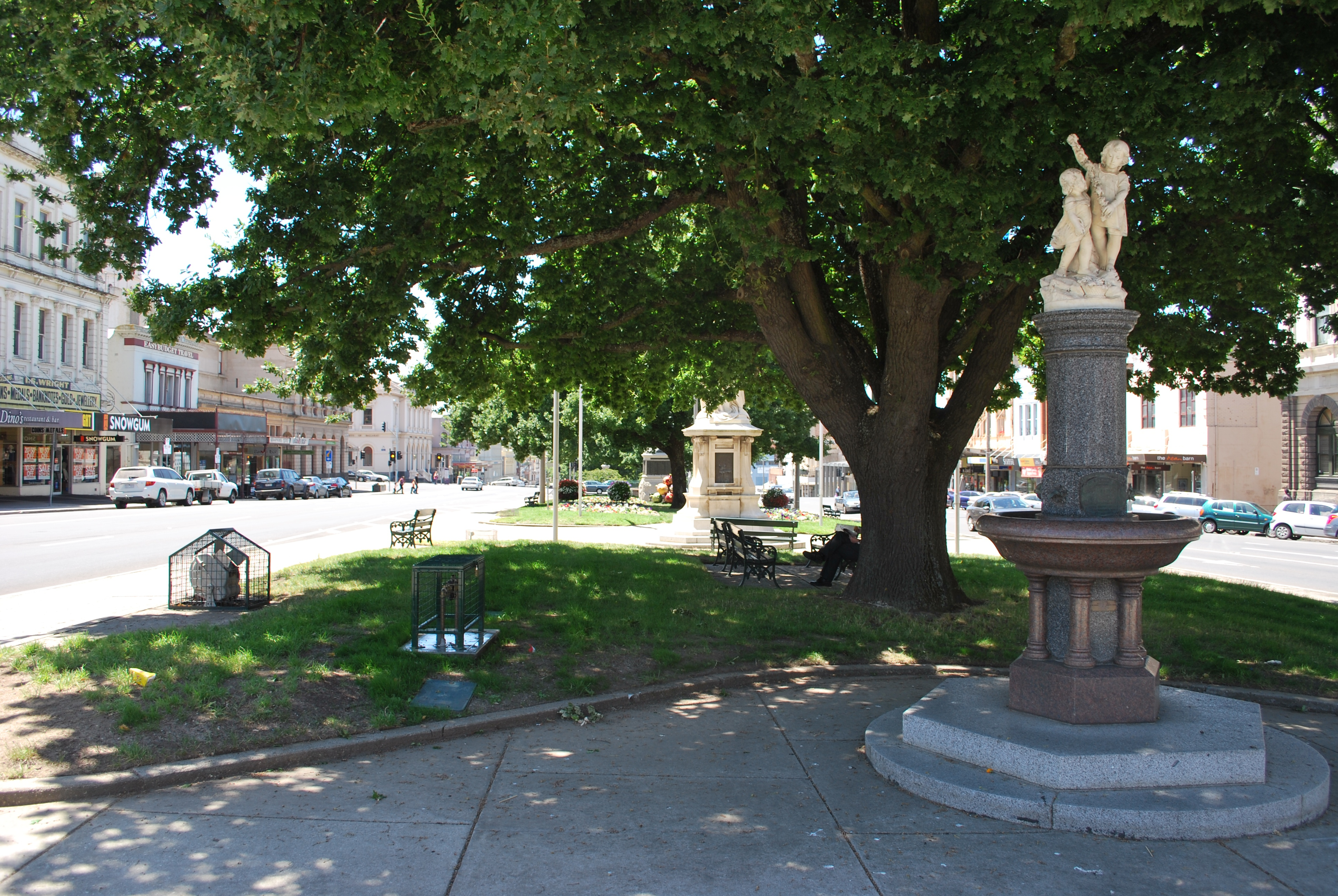 The large, grassed median strip of Sturt St, the main street of Ballarat, Australia